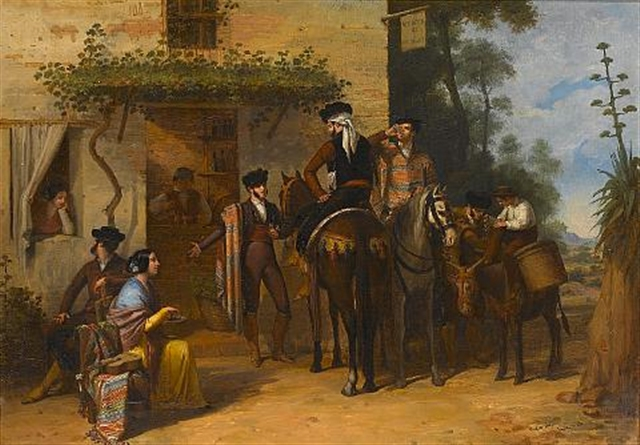 The Card Game